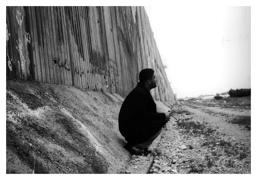 The west part of the wall in Qalqilyah